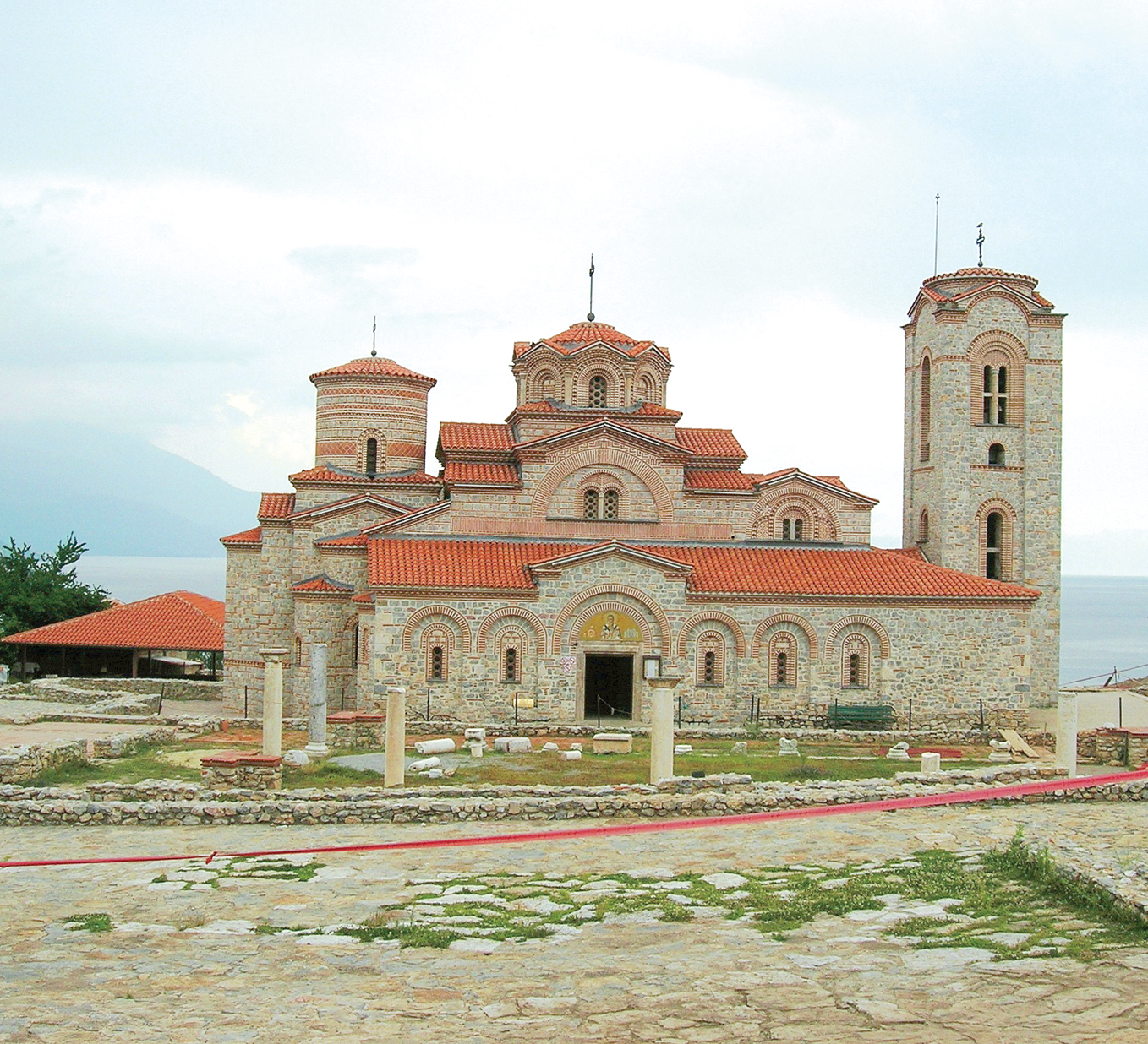 Saint Clement and Panteleimon, Ohrid, Macedonia